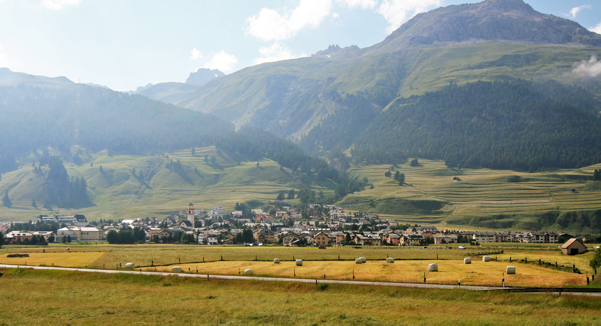 Celerina, canton of Graubünden, Switzerland.